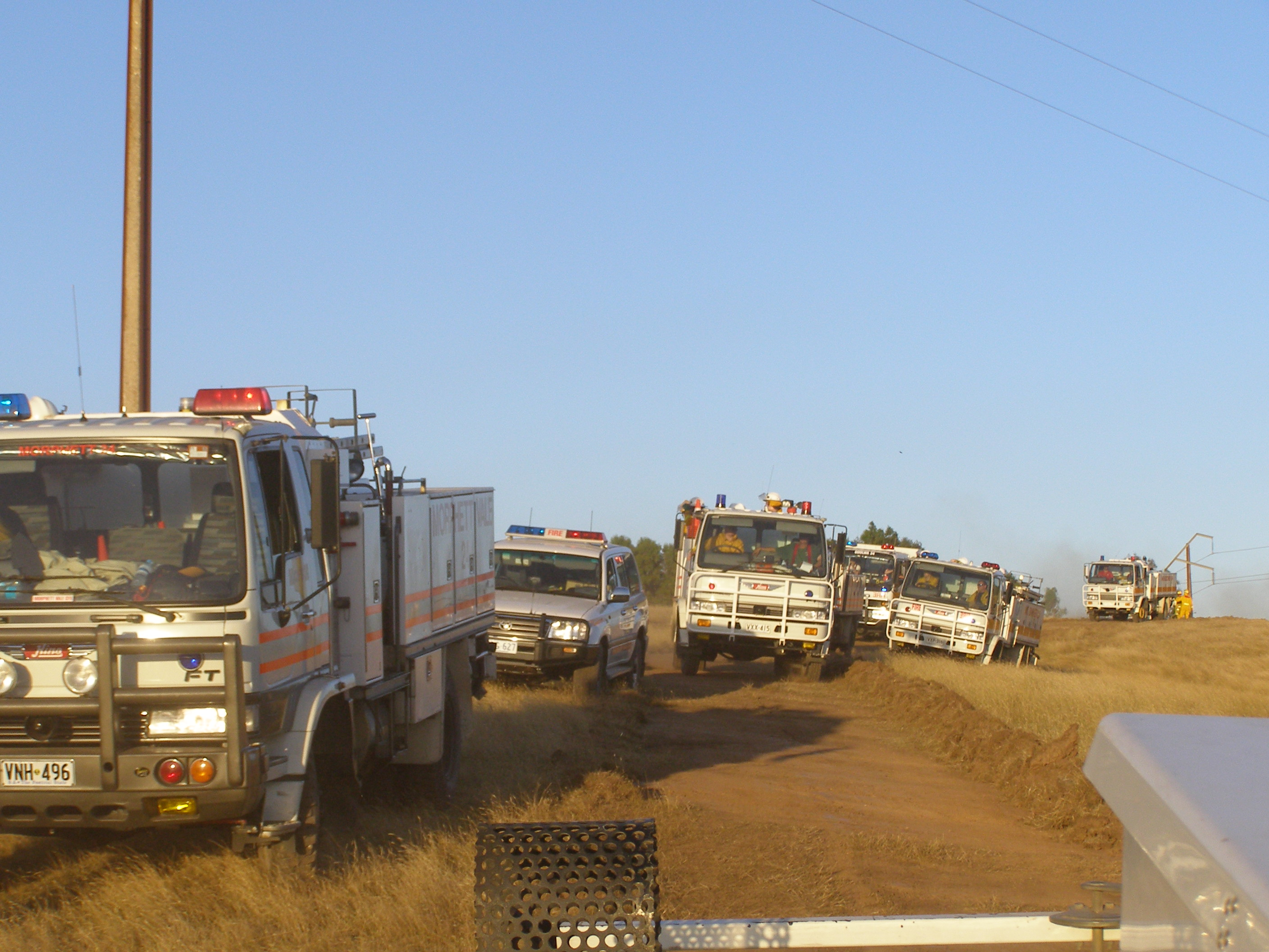 photo taken by user:Emmanuellives photo taken by user:Emmanuellives